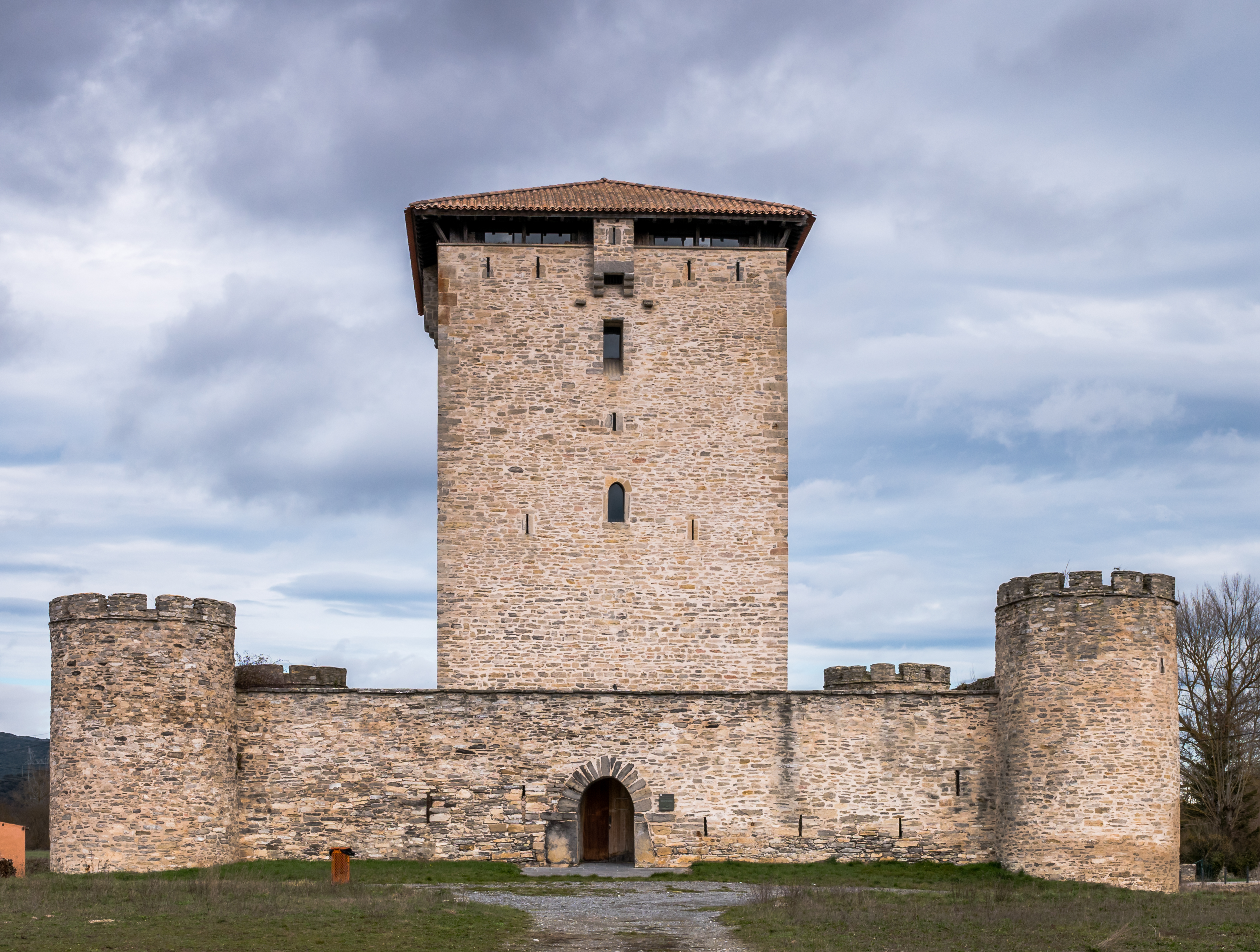 The Mendoza Tower. Álava, Basque Country, Spain